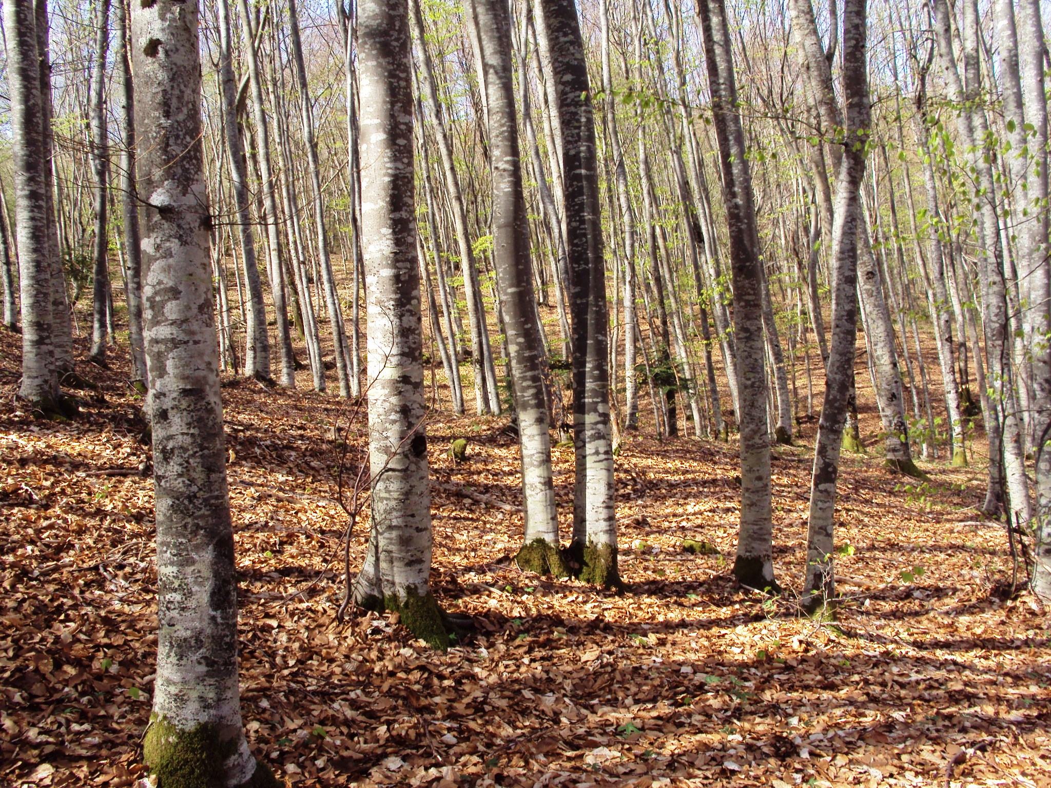 Fagus sylvatica, Kuterevo, Croatia